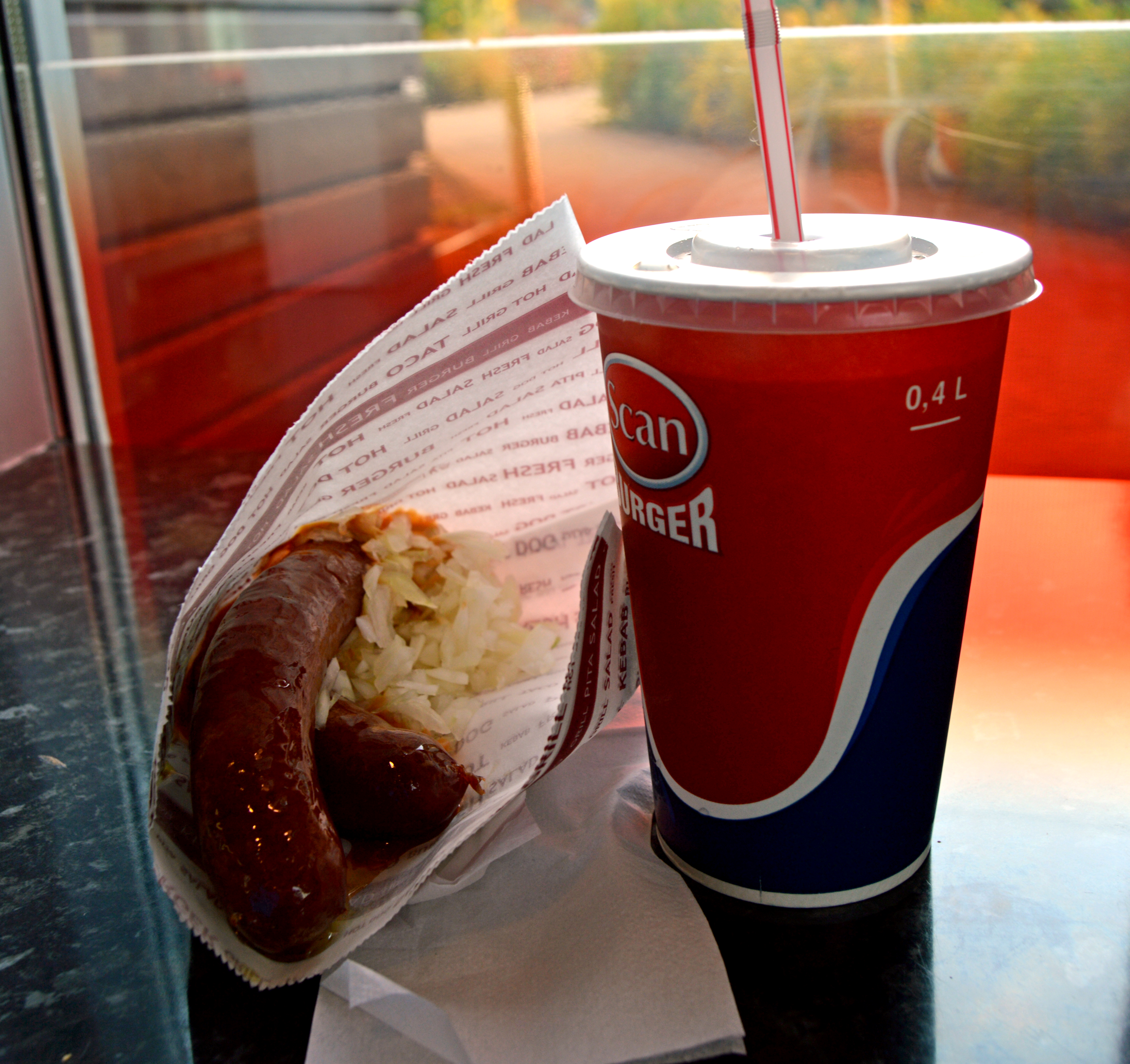 Kärkkäri with usual condiments. Kärkkäri is a type of sausage that is primarily served as (often late-night) hot dog stand fast food in Oulu, Finland, typically served with onion relish and mustard. Kärkkäri sausages are made by company Kotivara Oy.